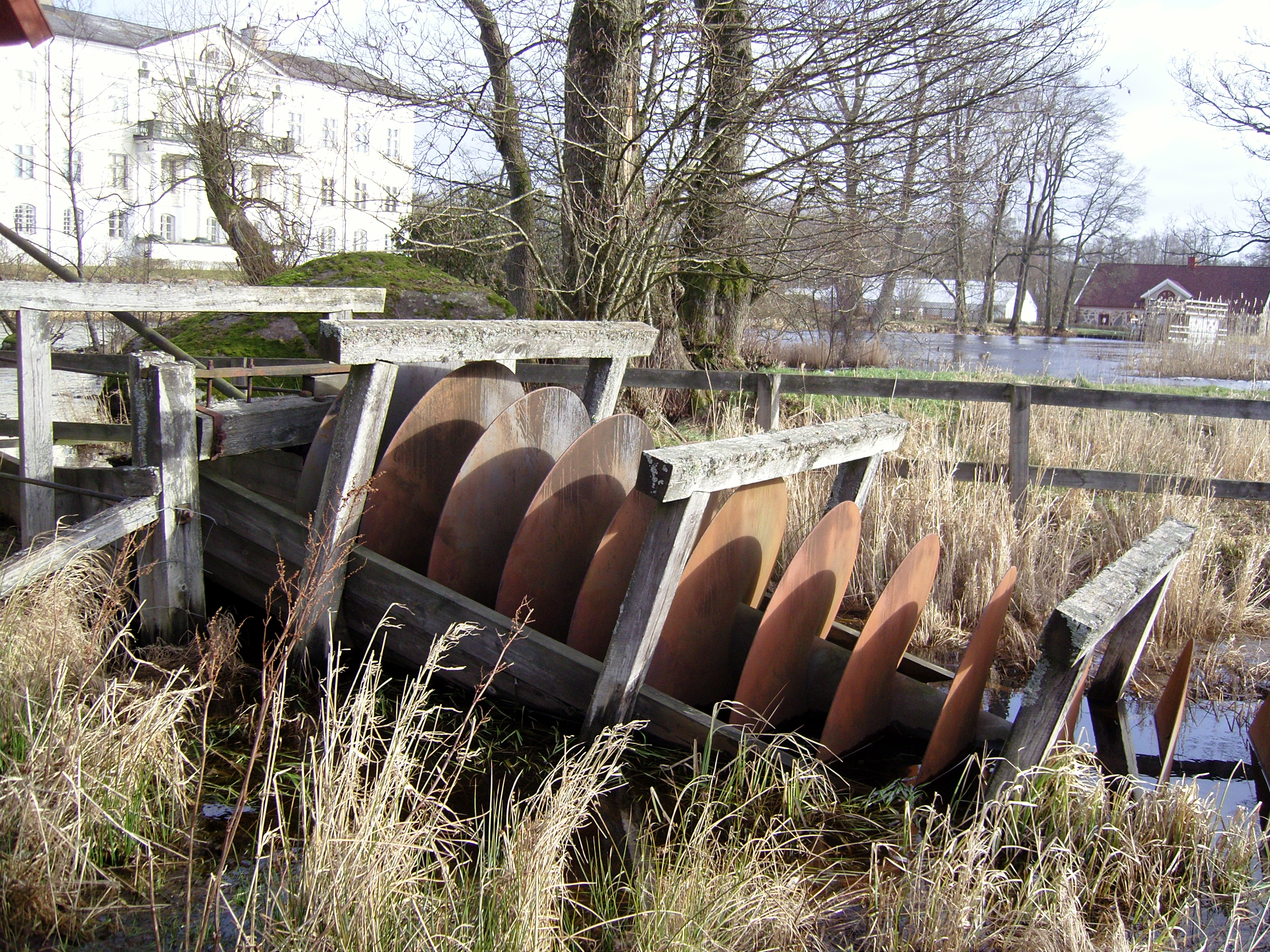 An Archimedes screw in Huseby south of Växjö Sweden.